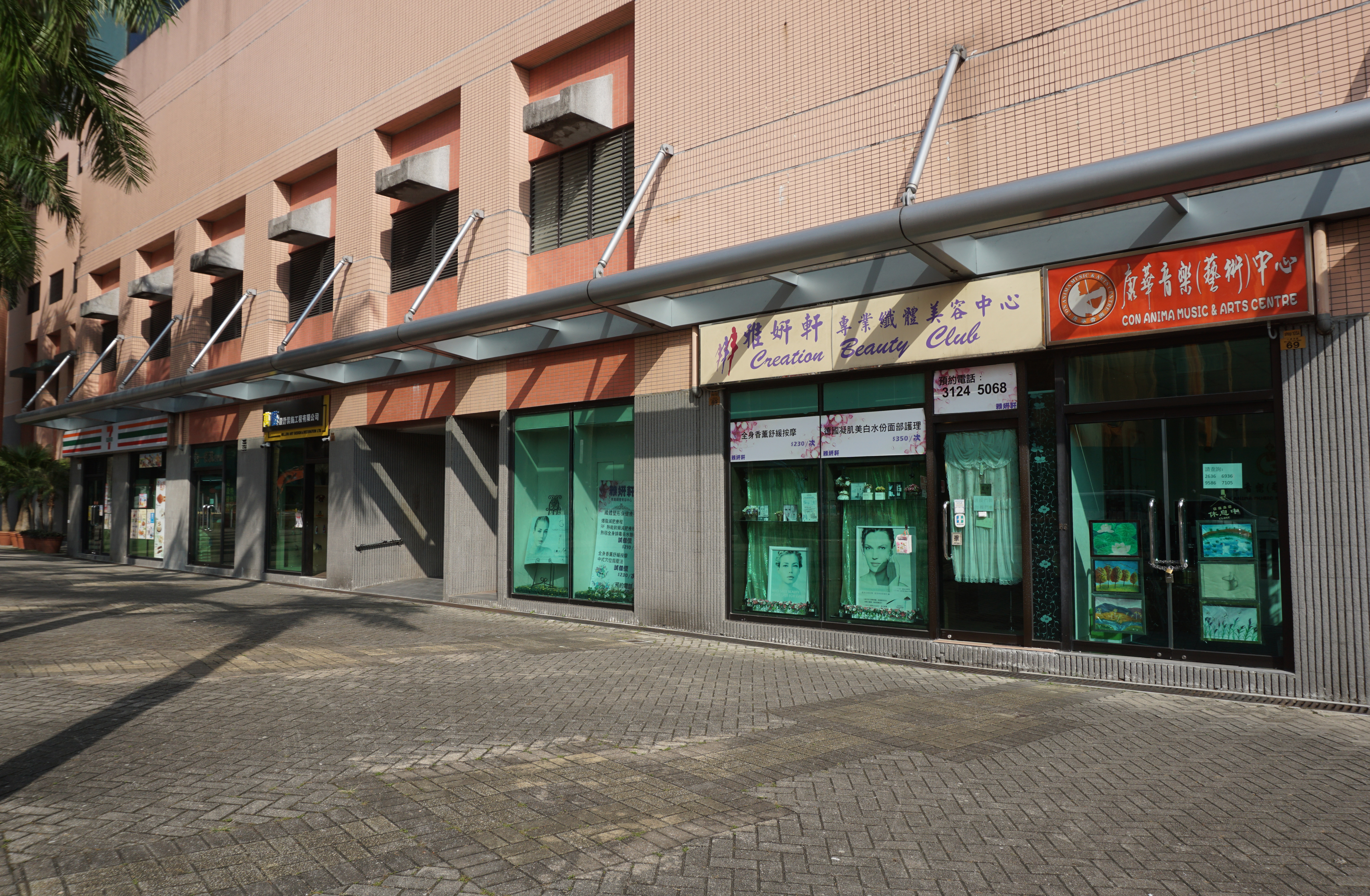 Castello in Siu Lek Yuen, Hong Kong.